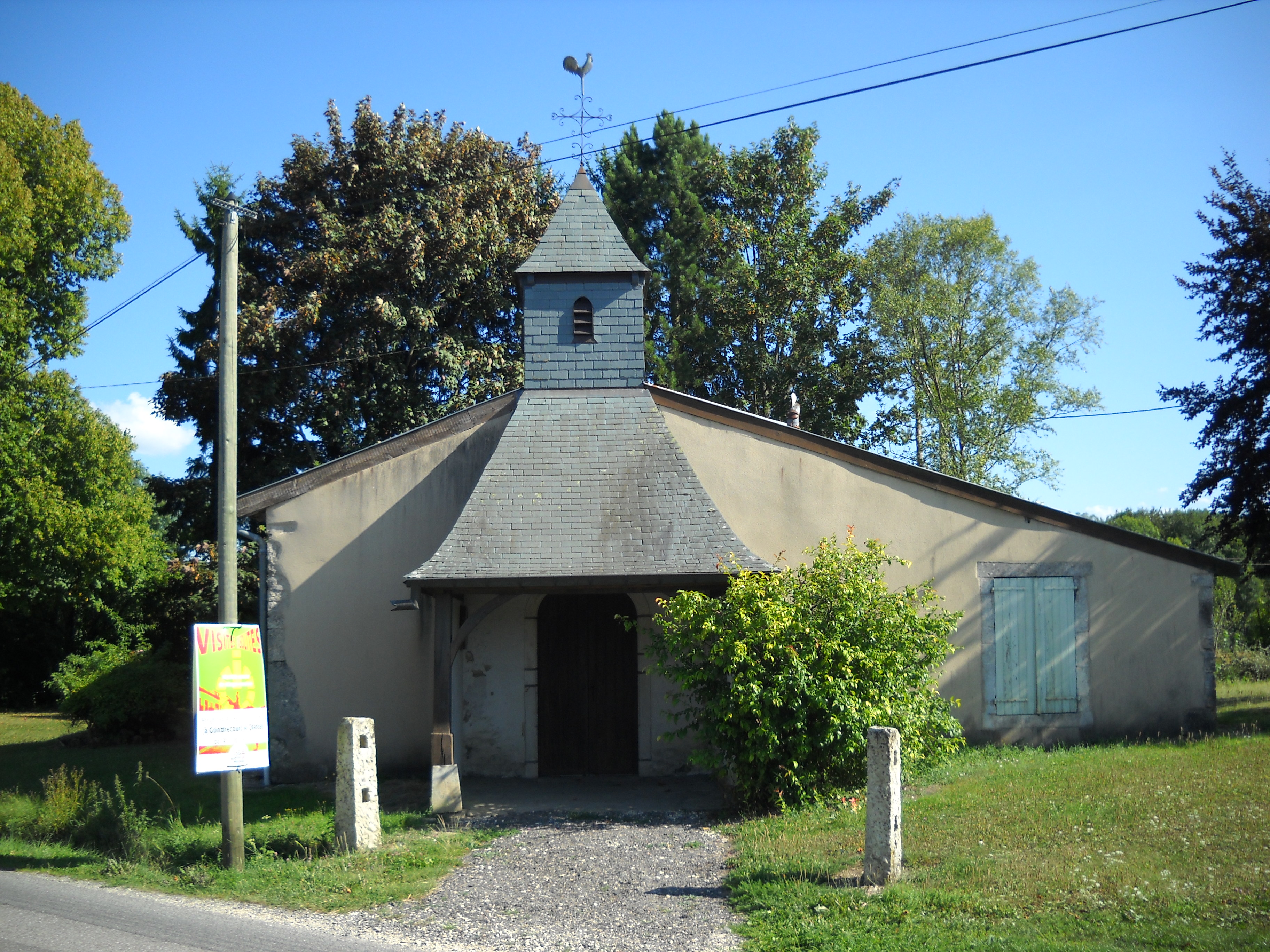 Ermitage of visitation